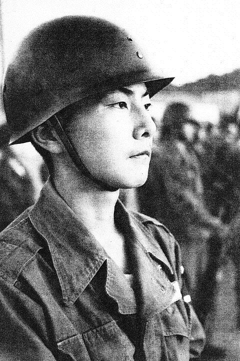 JGSDF Youth Technical School cadet in 1950s